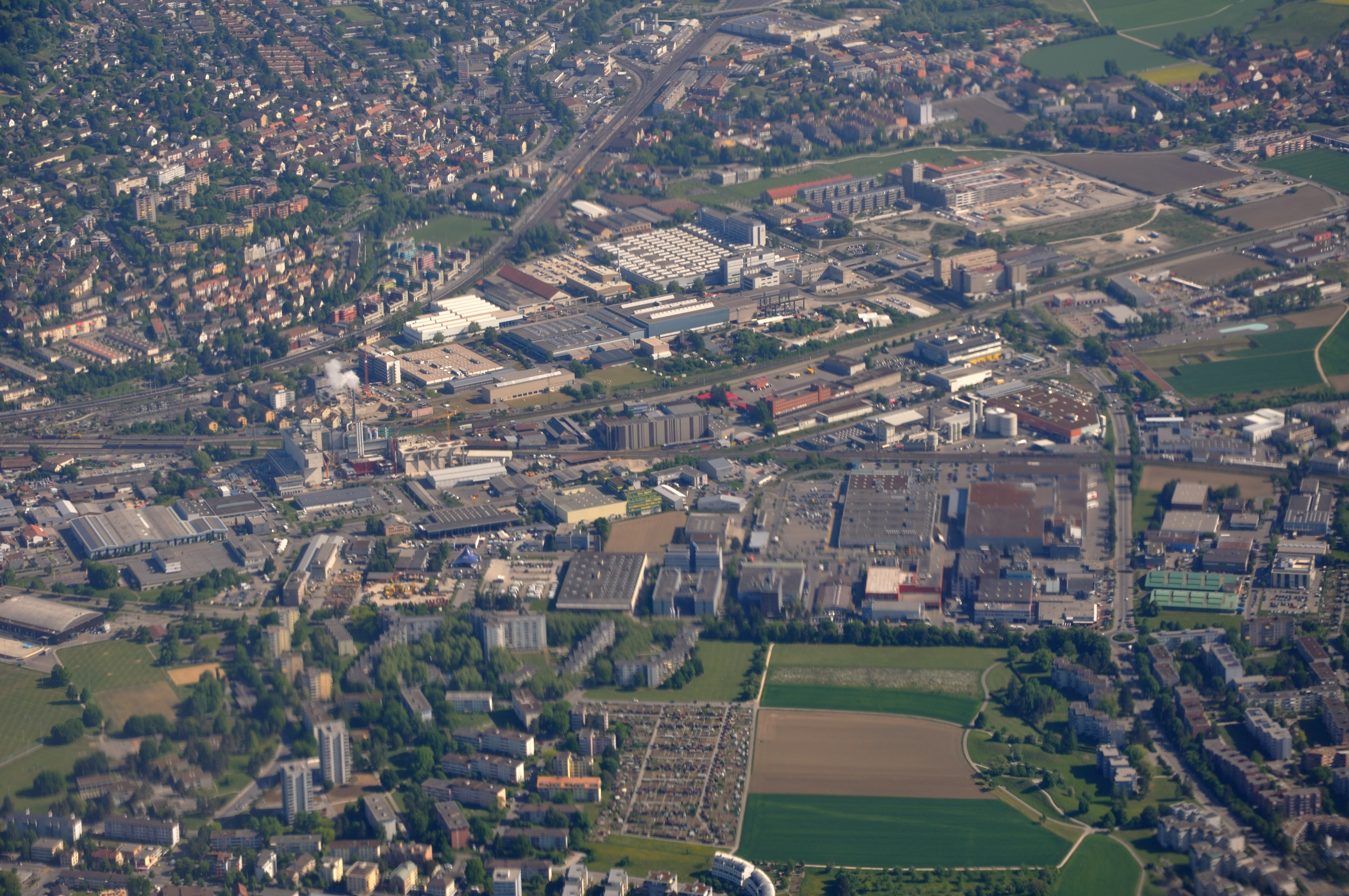 Switzerland, Canton of Zürich, aerial view of Winterthur. In the center is Grüze, a industry-quarter of Winterthur.